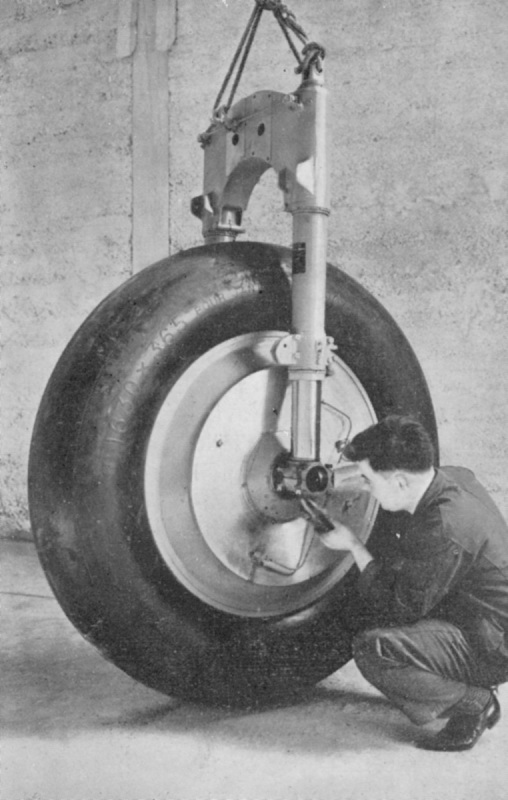 Dewoitine D.333 - aircraft gear (diameter 1,63 m)